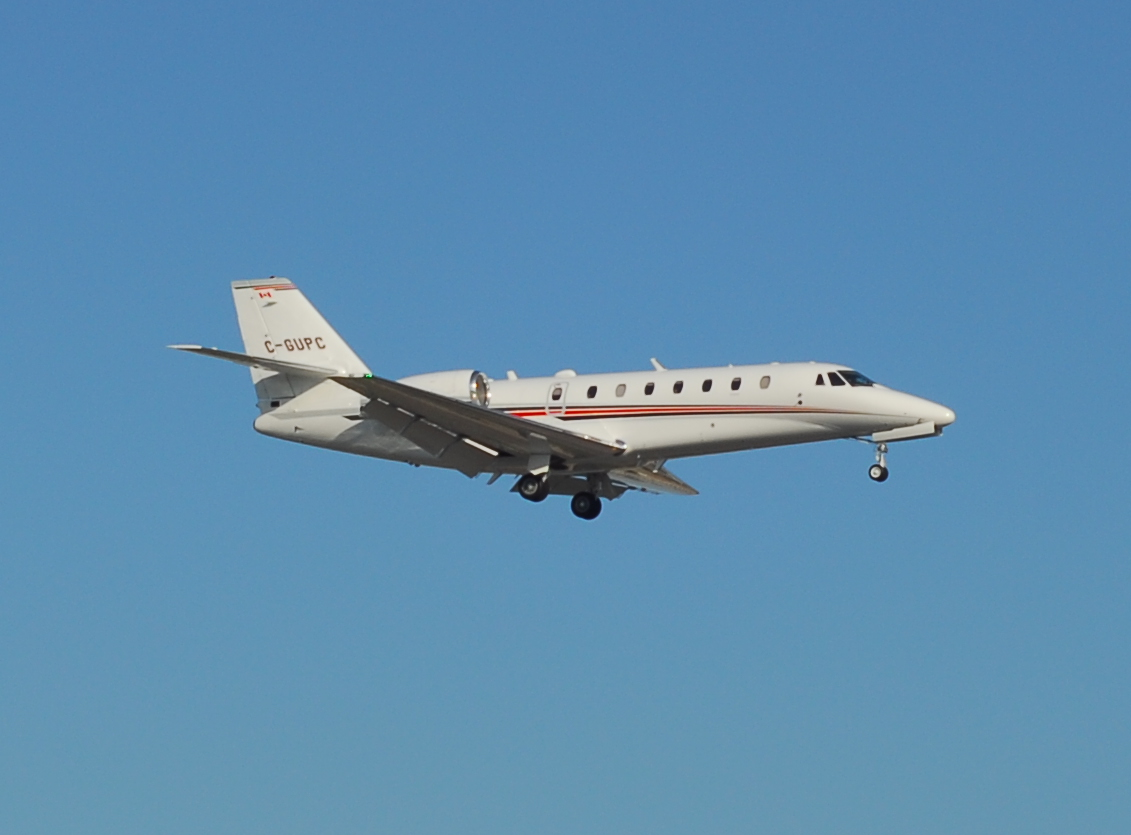 Cessna 560XL Citation Excel - C-GUPC - Owned by Air Georgian